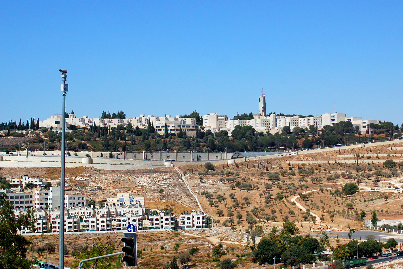 View from Zurim Vally to Mount Scopus (The Hebrew Univercity)